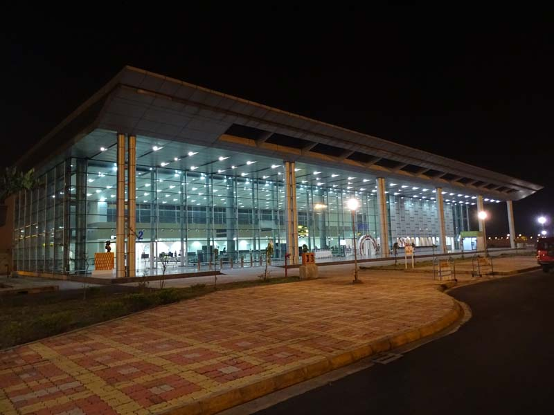 KNI Airport, Andal, Asansol at night